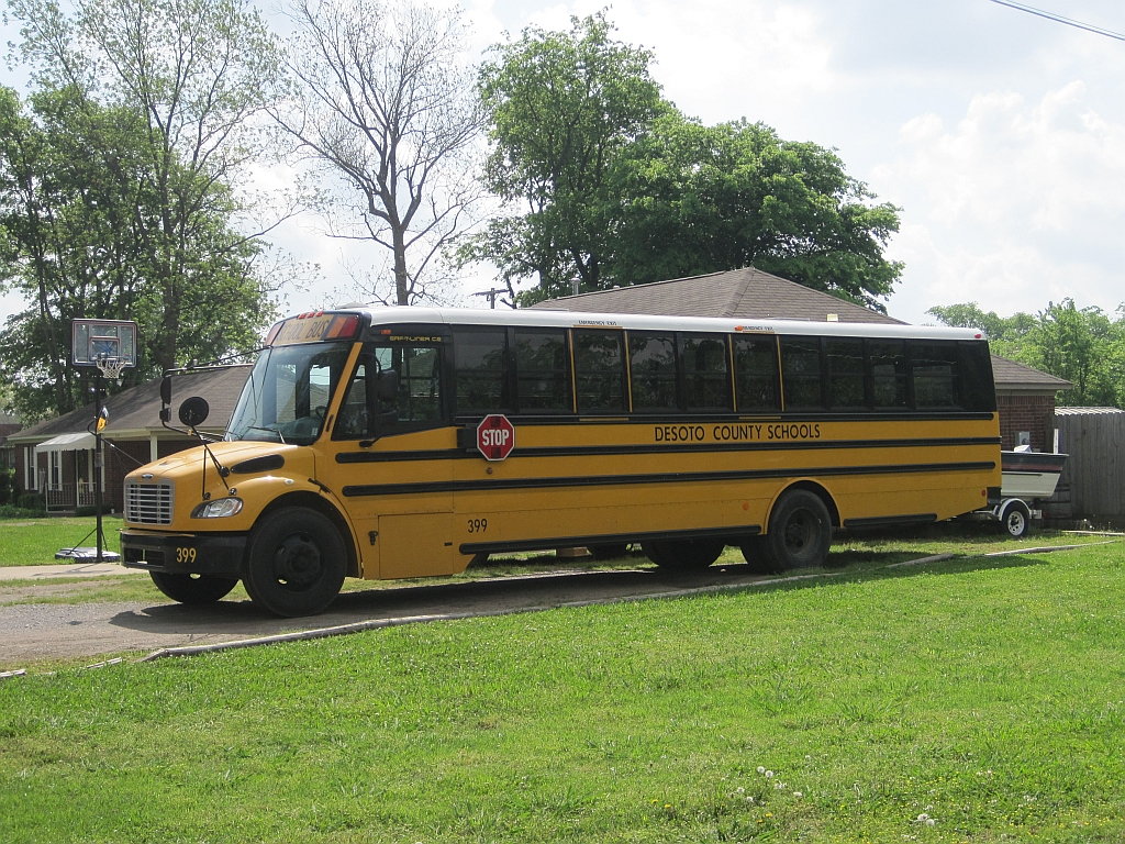 DeSoto County Mississippi school bus